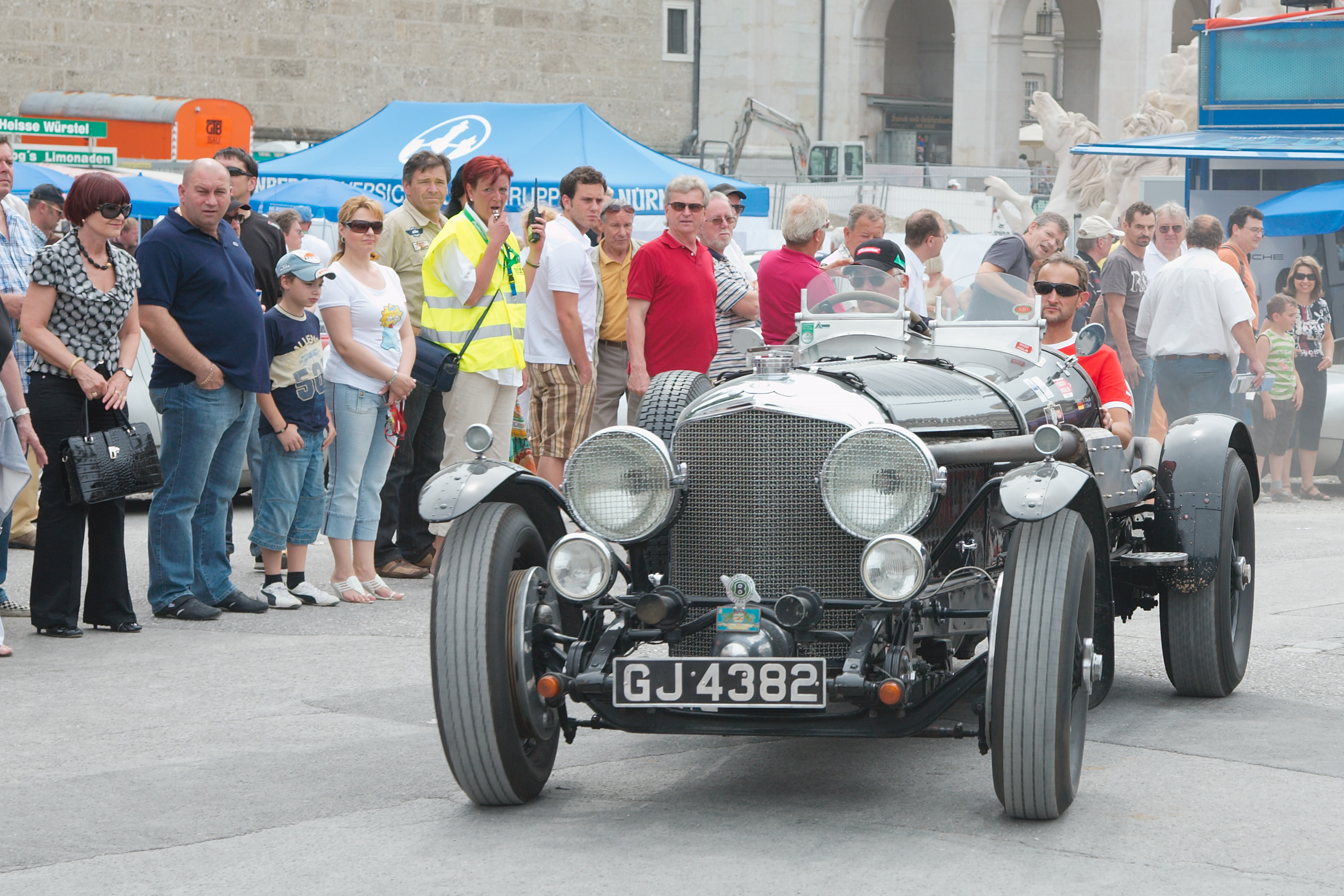 1930 Bentley Speed Six at 2009 Gaisbergrennen in Salzburg. Bentley 6½-litre tourer 1930 modified Original coachwork: saloon by Harrison Chassis KR2696 12 ft wheelbase Engine KR2694 Reg GJ 4382 delivered June 1930 Engine modified to 8-litre; lowered shortened by Hofmann & Mountfort; hydraulic brakes